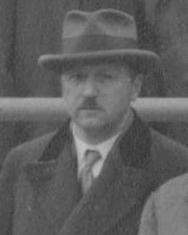 Paul Koebe, Mathematical Society Jena, visitors' conference at Abbeanum in Jena, 26th until 28th October 1930.